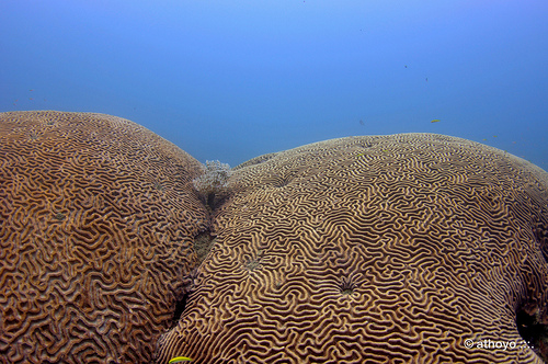 Brain Coral in Tayrona Park - Colombia